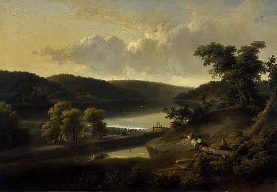 A View of the Flat Rock on the Schuylkill, near Philadelphia, 1827, by Thomas Doughty (1793-1856), National Gallerys Scotland, Accession no. NG 179, Medium: Oil on canvas, Size: 71.20 x 101.80 cm; Credit: Presented to the Royal Institute by Philip Teddyman 1828; transferred 1859